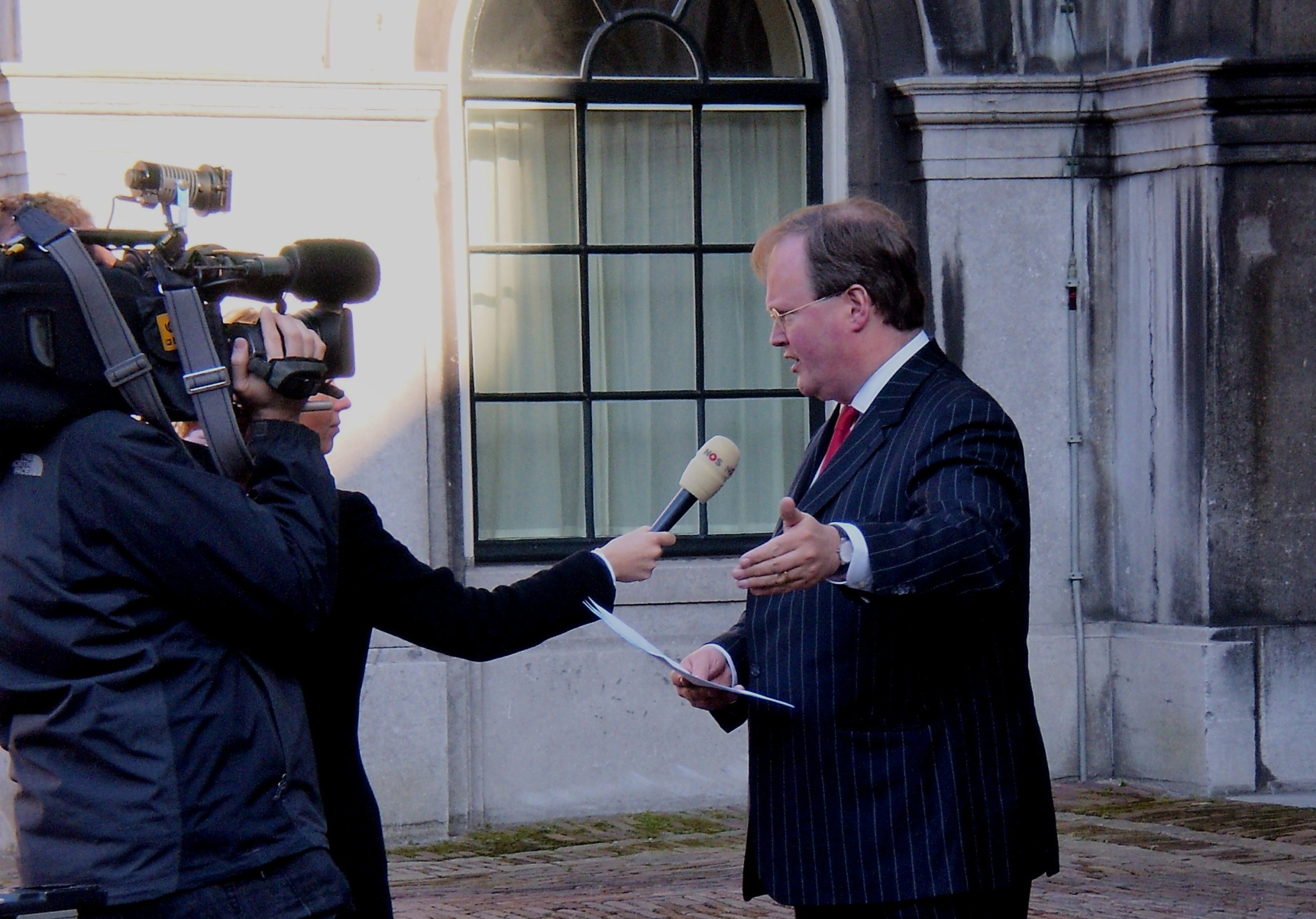 Crew of Dutch public broadcaster NOS interviewing politician Hans van Baalen